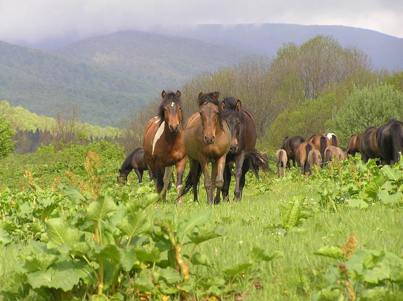 Hucul ponny of the Bieszczady National Park's stud farm in Wolosate, Podkarpackie, Poland